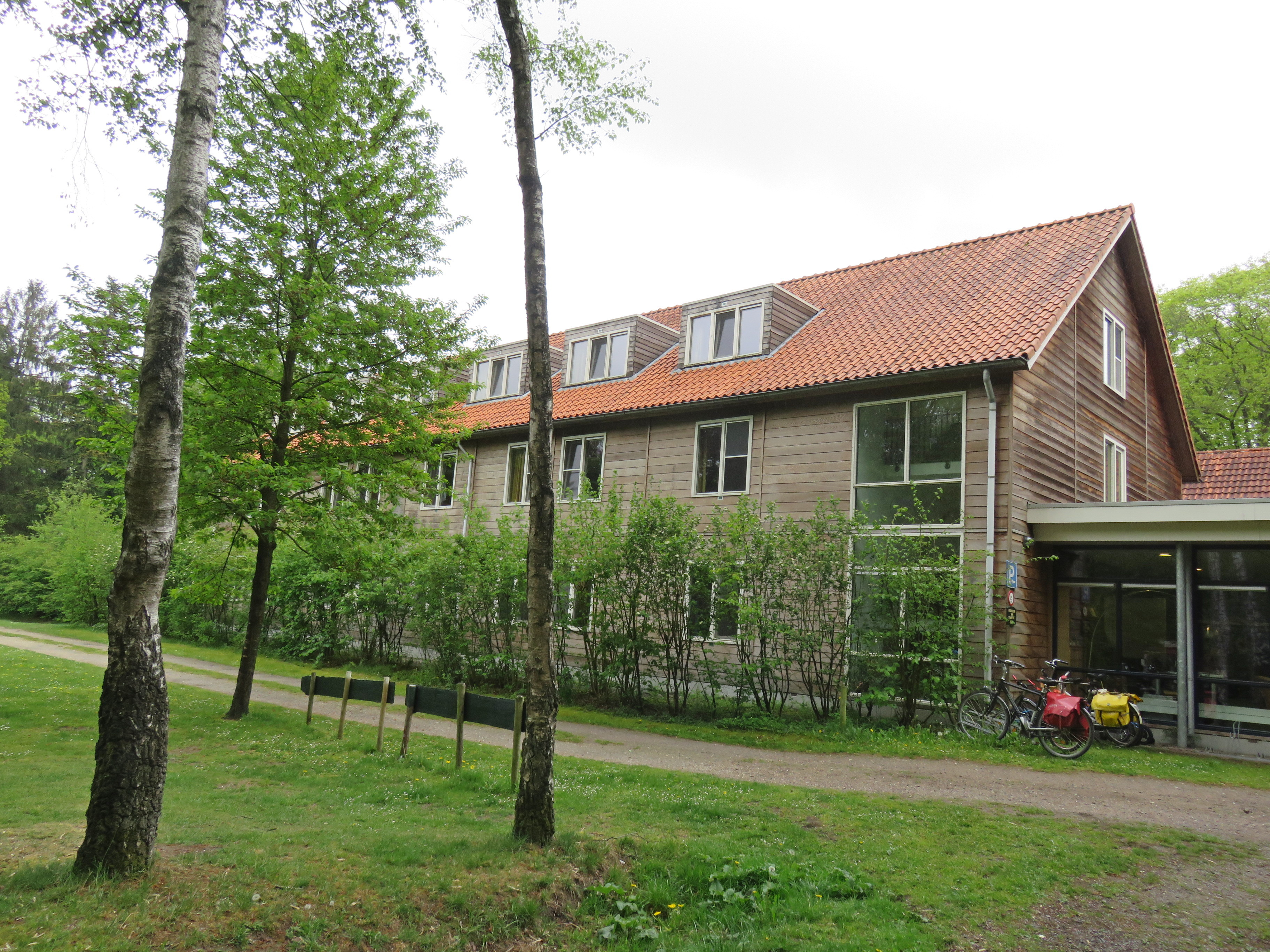 Morgenrood; House from the international organisation Friends of Nature in Oisterwijk (NL). The building with the sleeping rooms